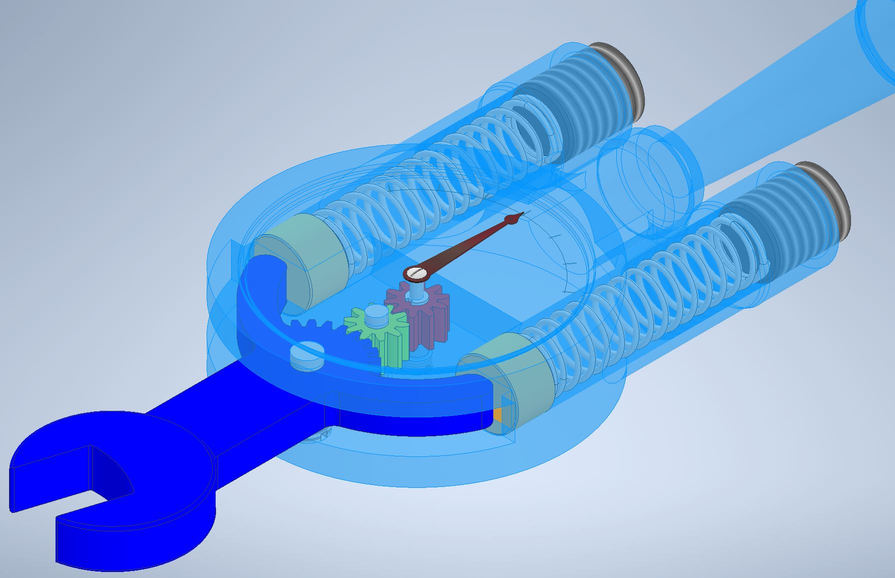 A conceptual model of J. H. Sharp's patented torque measuring wrench. Patented in 1931, this was the first of its kind. This type of wrench is known as an indicating torque wrench. In order to be used correctly the dial must be visible and directly in the line of sight of the operator. The wrench end of the tool is held in equilibrium by two calibrated springs. Application of torque overcomes the resistance of the springs causing the wrench end to rotate about its pivot. This rotation is transferred to the dial pointer which in turn indicates the measured torque on the dial face.